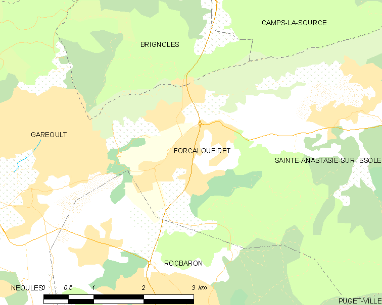 Map of French municipality Forcalqueiret